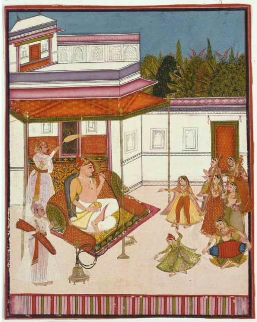 Maharao Umed Singh of Bundi, Bundi, circa 1770, Christie's